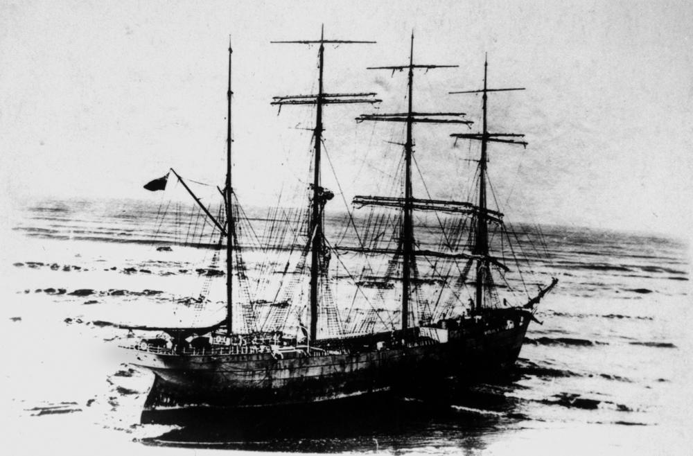 Galena (ship) Wrecked on sands at the mouth of the Columbia River on the 13th November 1906. (Description supplied with photograph).